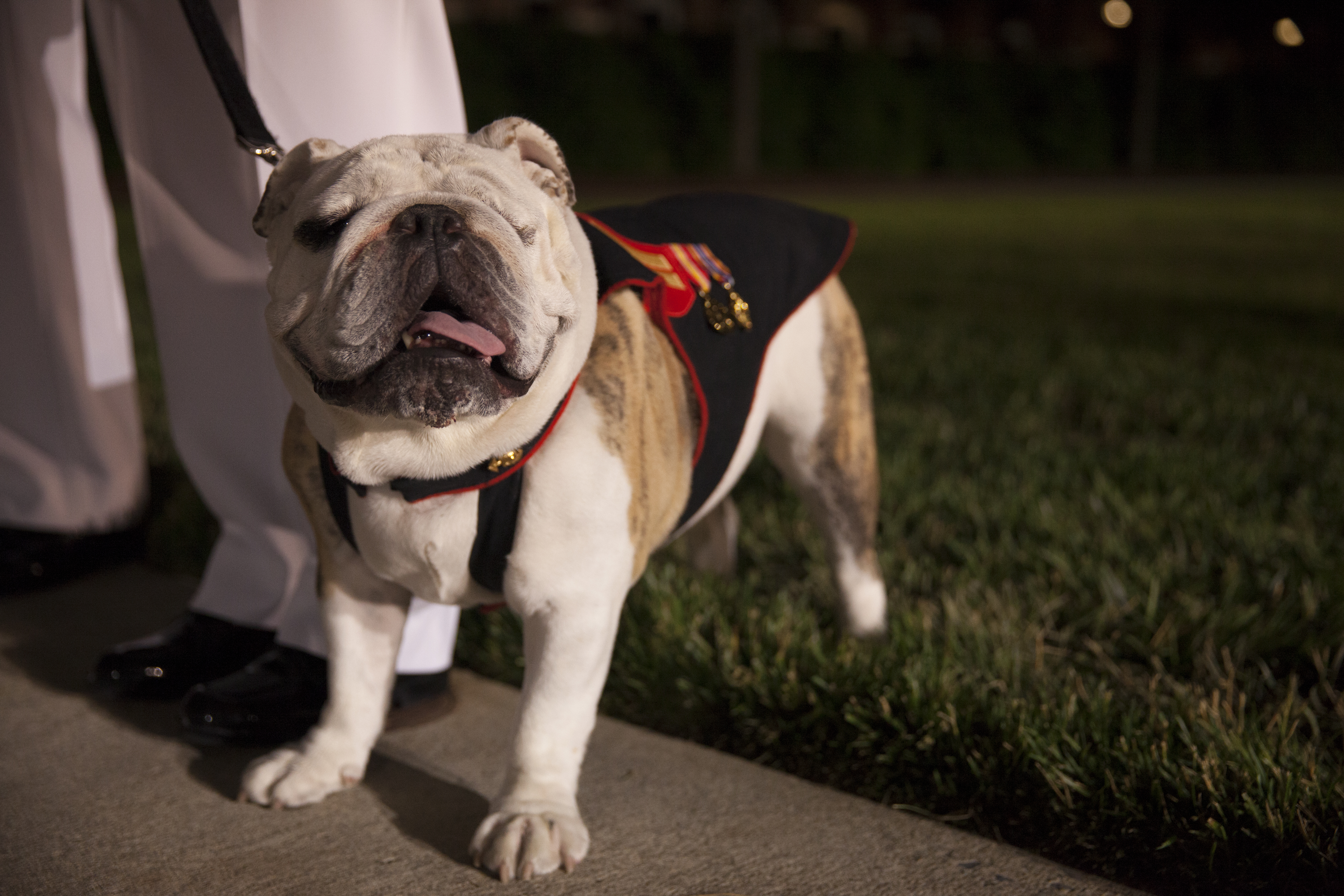 A U.S. Marine stands with Cpl. Chesty XIV, mascot of Marine Barracks Washington (MBW) at center walk during the evening parade, Washington, D.C., June 5, 2015. Sen. Patrick Leahy, D-Vt., was the guest of honor for the parade, and Marine Corps Gen. Joseph Dunford, the 36th commandant of the Marine Corps, was the hosting official. The Evening Parade summer tradition began in 1934 and features the Silent Drill Platoon, the U.S. Marine Band, and the U.S. Marine Drum and Bugle Corps, and two marching companies. More than 3,500 guests attend the parade every week. (U.S. Marine Corps photo by Lance Cpl. Hailey D. Stuart/Released)